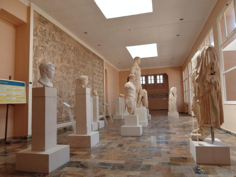 Scluptures in the Archaeological Museum of Cherchell